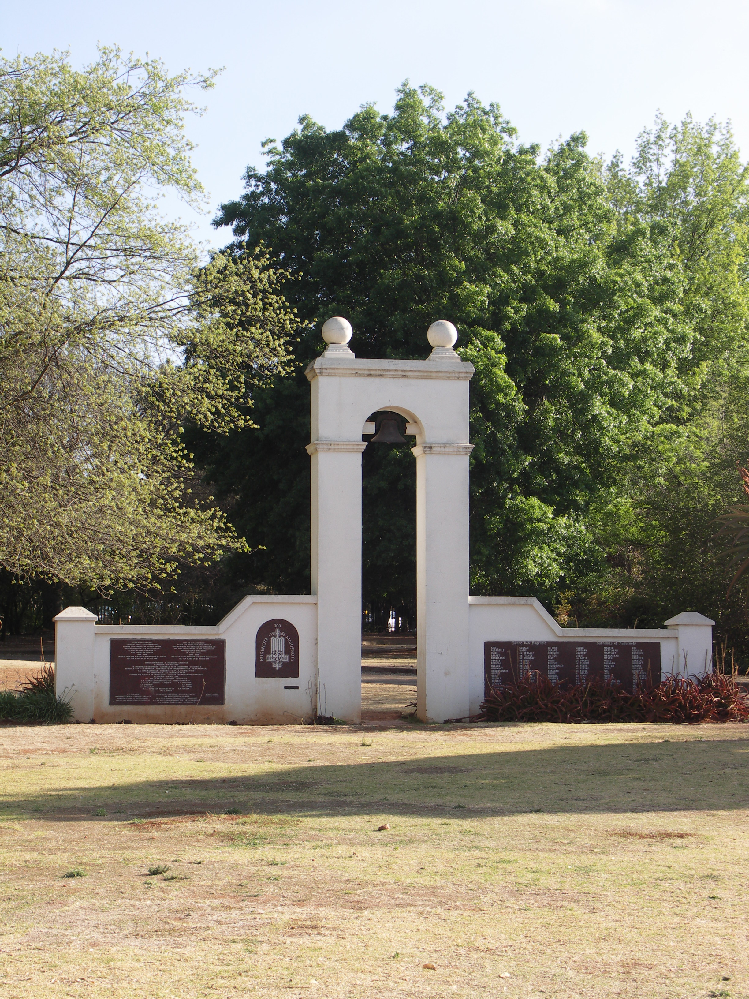 The Huguenot Memorial in the Johannesburg Botanical Garden. It commemorates the 300th anniversary of the arrival of the Huguenots in South Africa. It includes a comprehensive list of the Huguenot surnames.